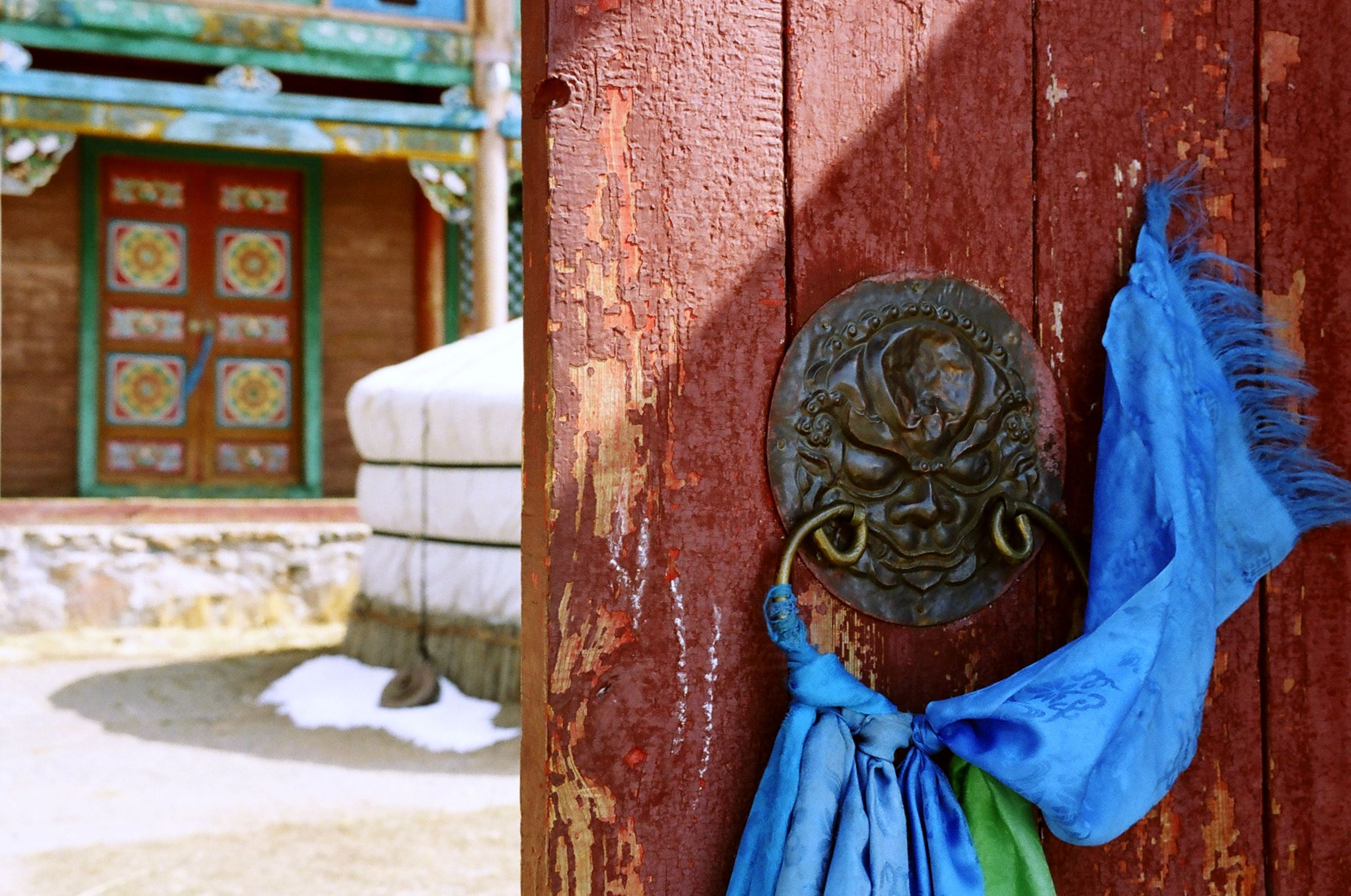 A door of the gate to Manzushir Monastery in Mongolia. The bronze handle is in the traditional style as a lion or beast. A blue prayer shawl (khata) is tied around it, which is a tradition in Mongolia. In the background the temple itself can be seen